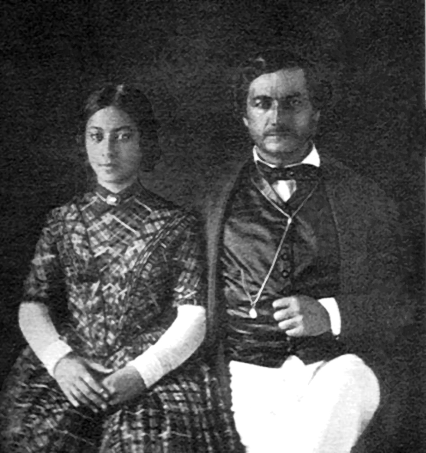 Dagurreotype of Keoni Ana (John Kaleipaihala Young II) and his niece Emma Rooke.